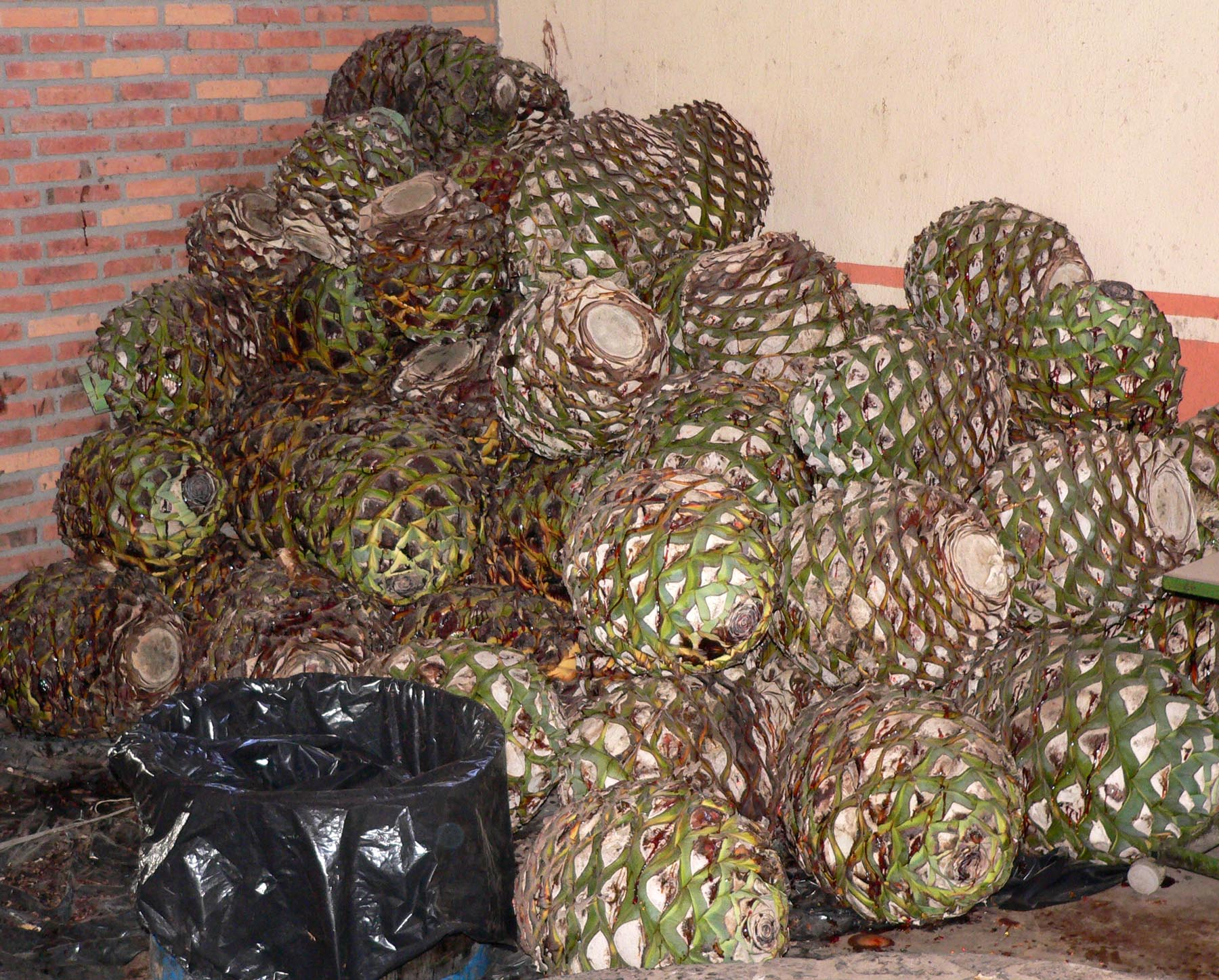 Photo of Agave tequilana at Dona Engracia hacienda, Jalisco, Mexico